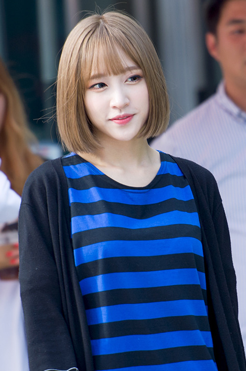 Hani at a fanmeet on Show Music Core on July 2, 2016.